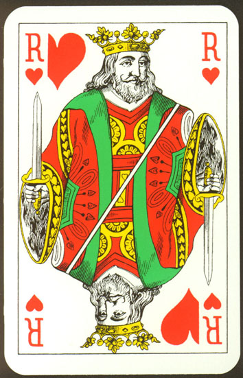 King of hearts in the Belgian pattern, the second most commonly produced pattern of playing cards worldwide. Design dates from the mid-19th century as a minor alteration of the Paris pattern for export purposes. This pattern is also found in North Africa, the Middle East, the Balkans, Genoa, and in former French colonies.